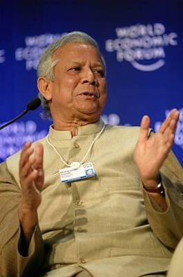 DAVOS-KLOSTERS/SWITZERLAND, 31JAN09 - Muhammad Yunus, Managing Director, Grameen Bank, Bangladesh, speaks during the session 'The Girl Effect on Development' at the Annual Meeting 2009 of the World Economic Forum in Davos, Switzerland, January 31, 2009 Copyright by World Economic Forum